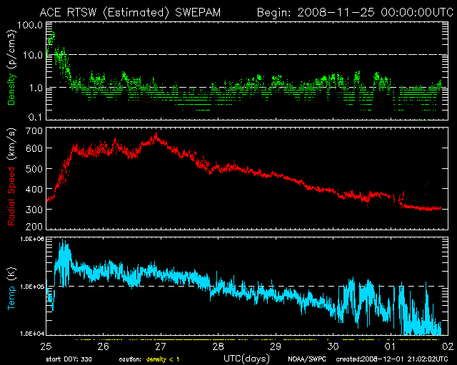 One week of solar wind data from LANL's SWEPAM instrument on the NASA solar wind monitor ACE (Advanced Composition Explorer). Top panel: Solar wind number density, i.e. number of protons per cubic centimeter. Centre panel: Solar wind radial flow speed in kilometers per second. Bottom panel: Solar wind proton temperature in kelvin.